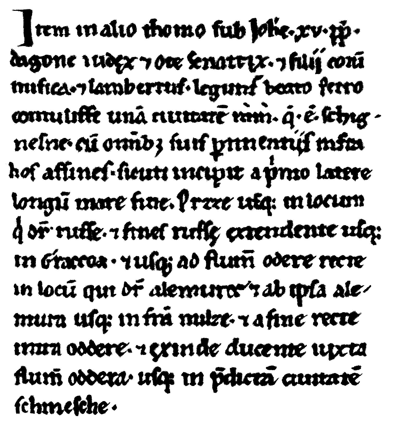 This picture contains a copy of latin text, which you can find in medieval codex from second half of 12 century (look at Source). It's written by transalpine early gothic minuscule (or lately carolinian minuscule with gothic elements), except first " I ", one from unical. For more information see below. This copy has been done by pencil, HP Photosmart C3180 (scaned), and MS Paint. That's why this copy is not exact, but very similar only.